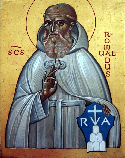 San Romualdo